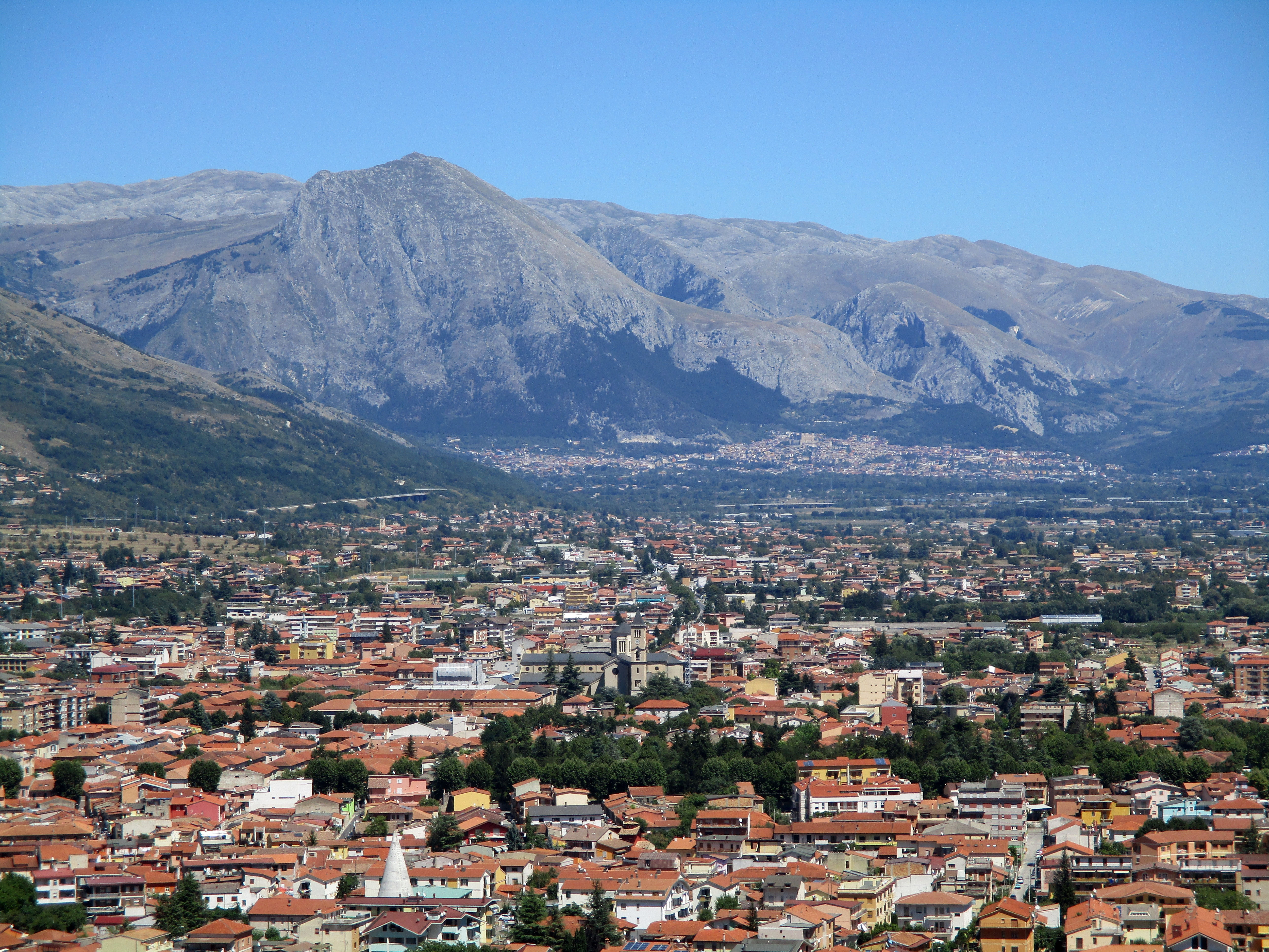 Panoramic view of Avezzano, Abruzzo, Italy